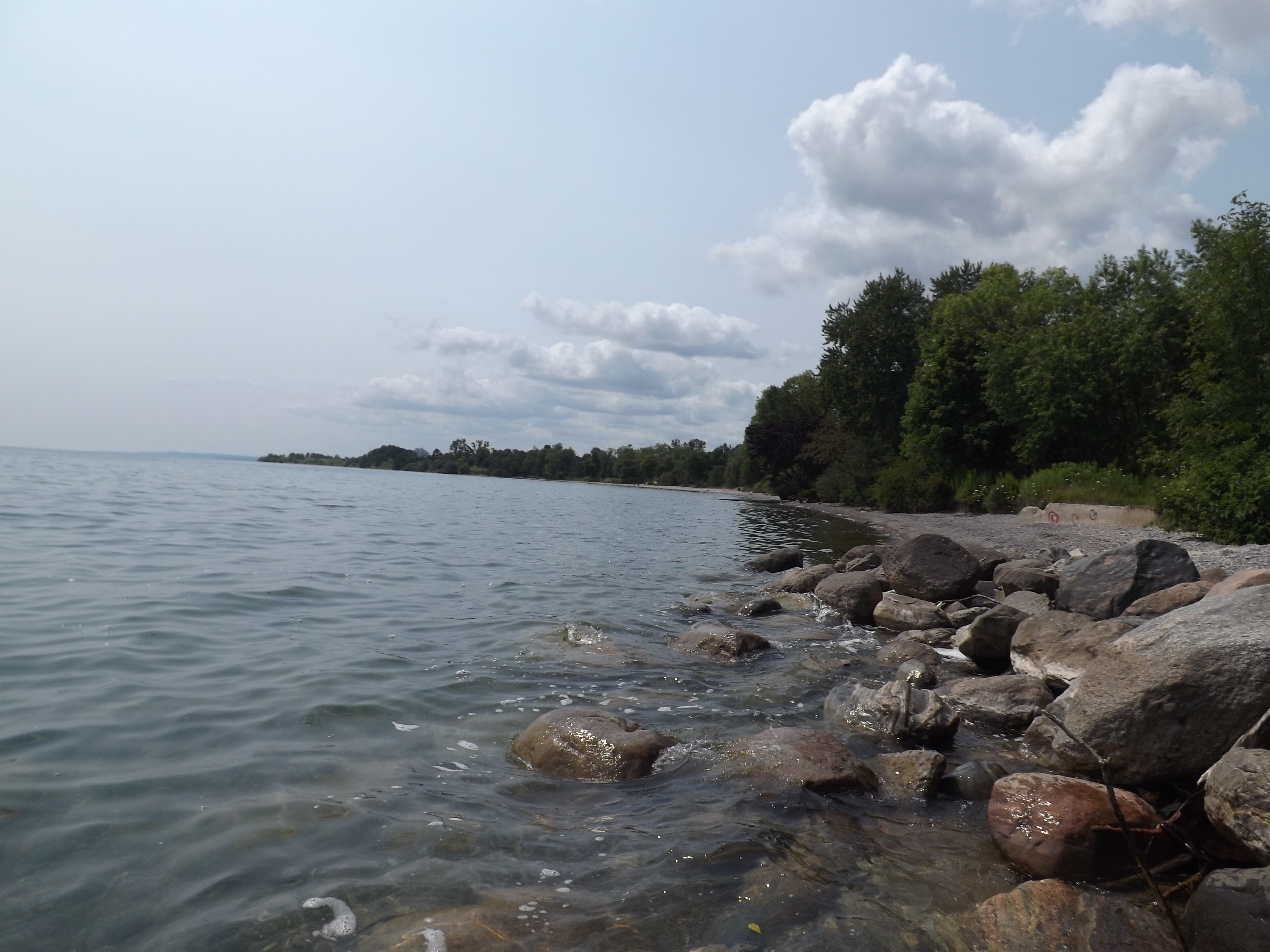 Photo taken facing Pickering beach.